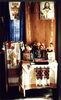 Chapel of Ukrainian Catholics in Krasnodarka (Lugansk, Ukraine)